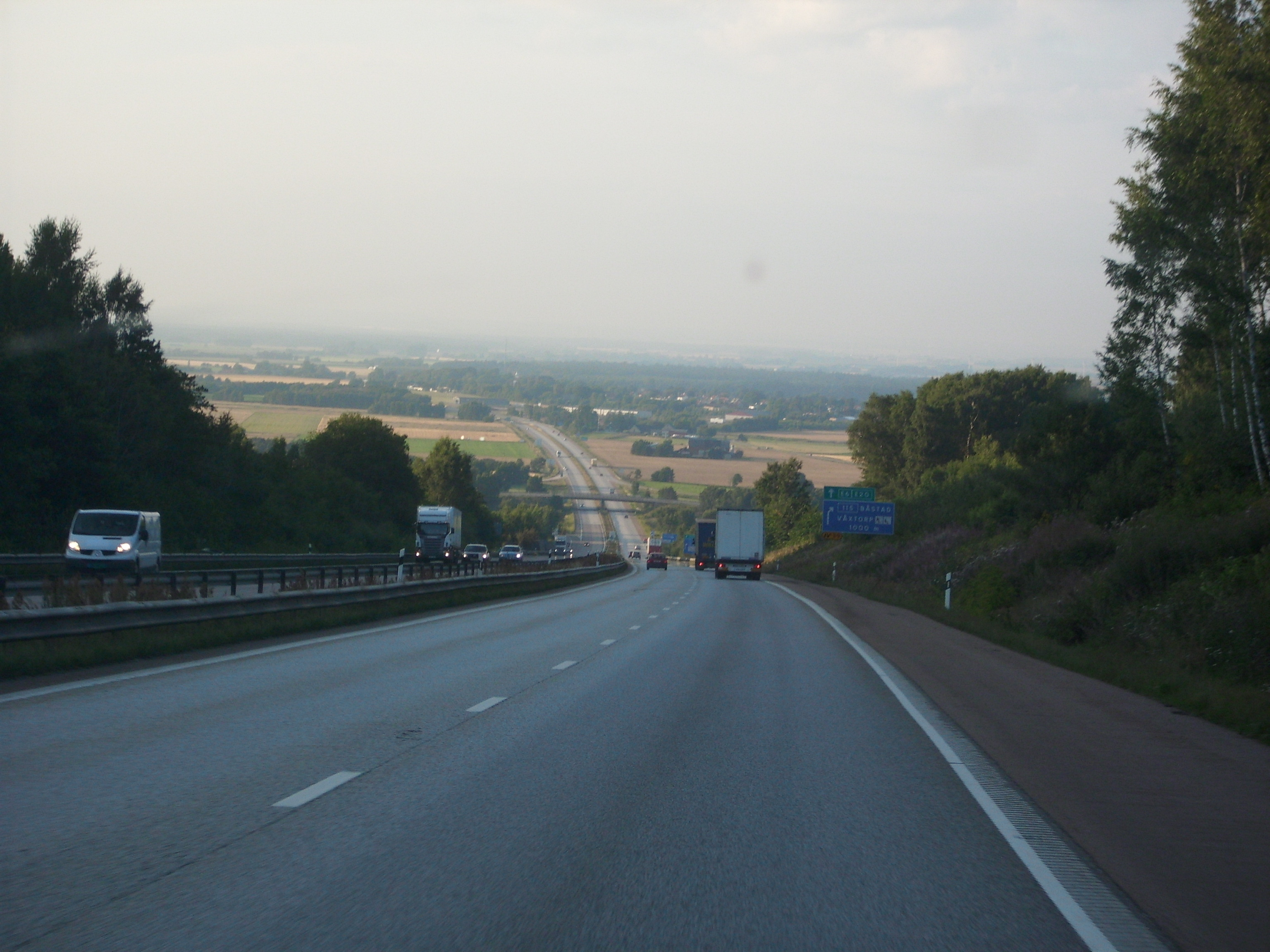 The really steep hill of Hallandsåsen. It's so steep that some trucks struggle to get over it.